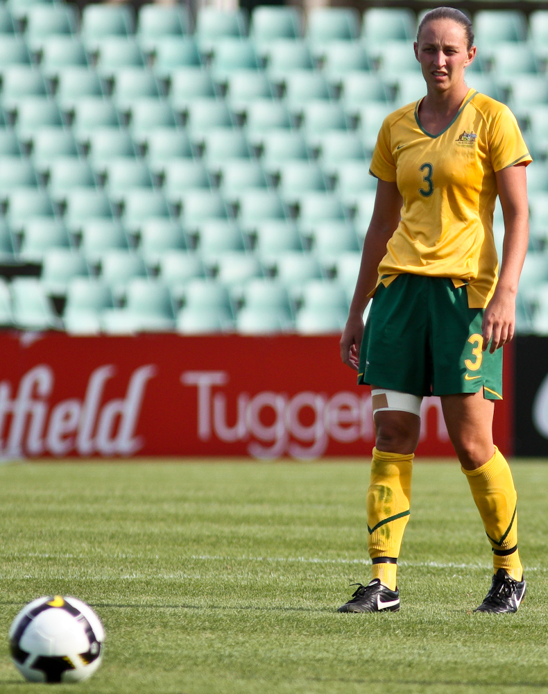 Karla Reuter playing for the Australian Women's Football Team against Italy in a friendly international.